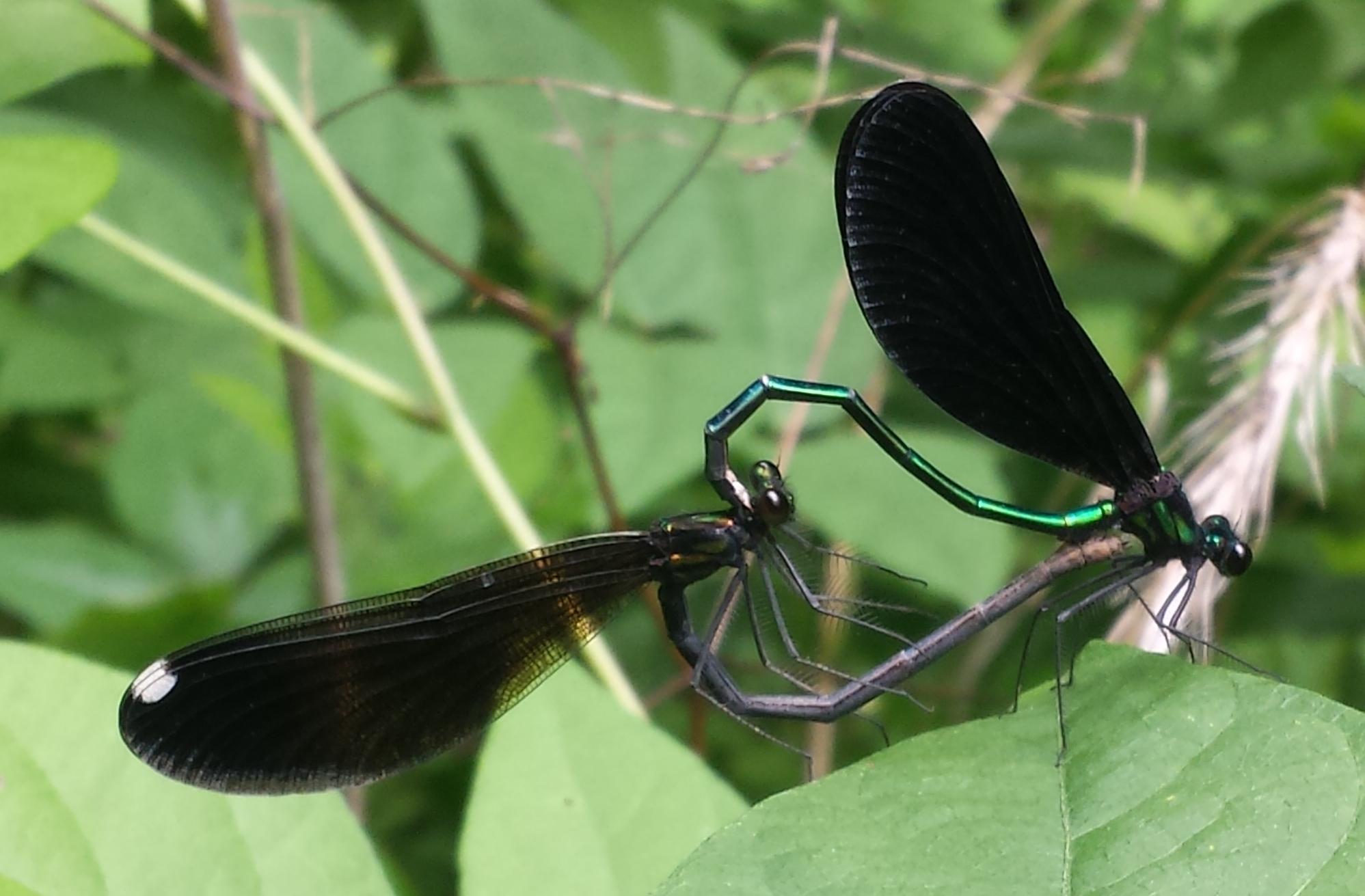 Two Ebony Jewelwings (Calopteryx maculata) mating in Cuyahoga Valley National Park. This version is cropped from the original version.